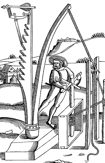 Image of medieval mechanical artillery, now known as the spring engine.